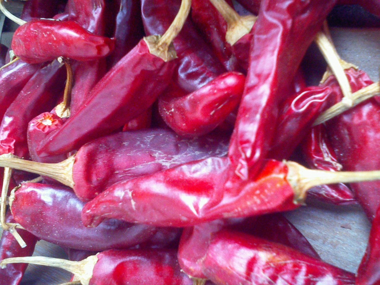 Drying Korean chili pepper.